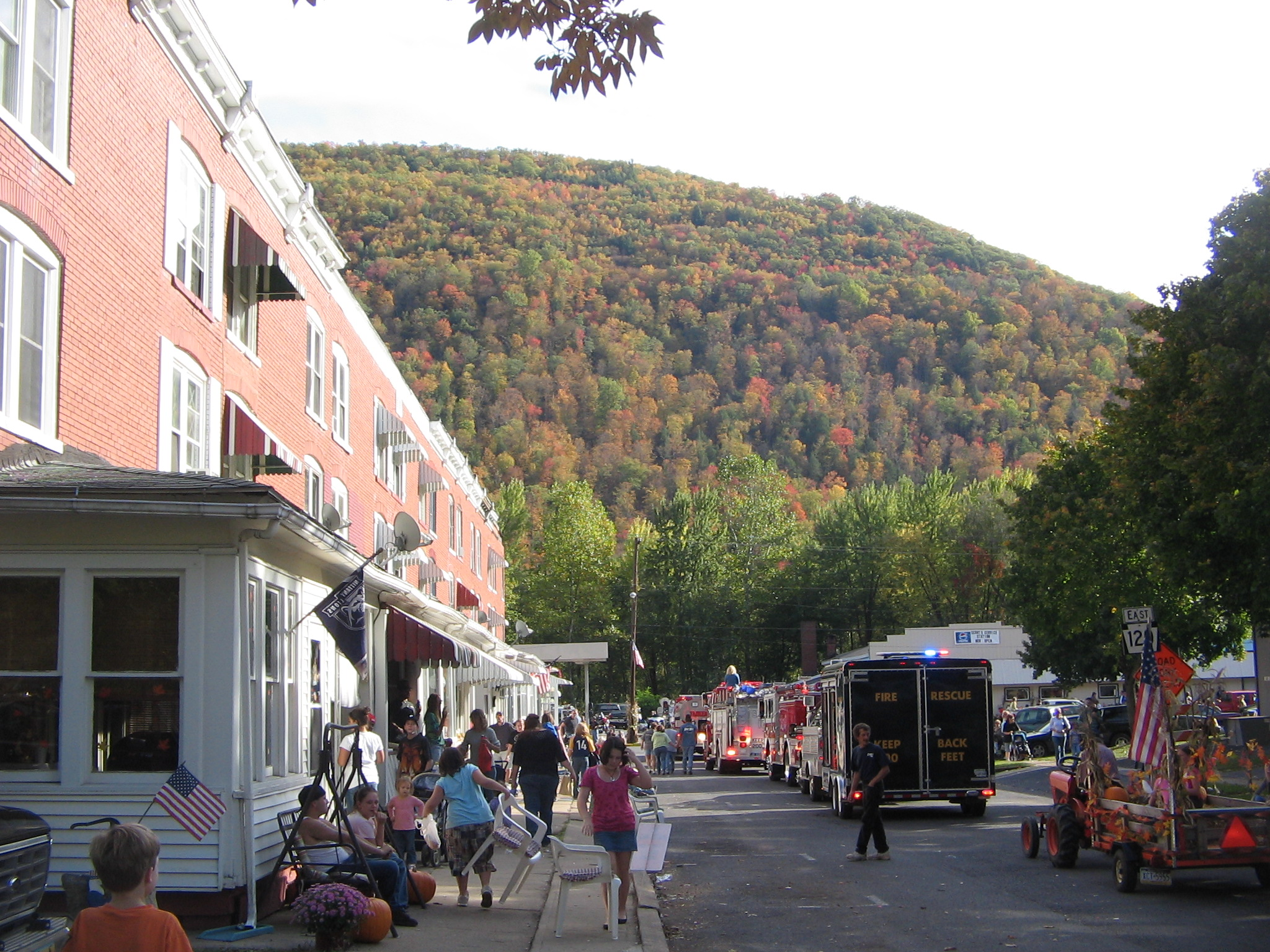 14th Street in Renovo, Pennsylvania, looking south. The Flaming Foliage Festival parade is on the street (fire trucks and ambulances)